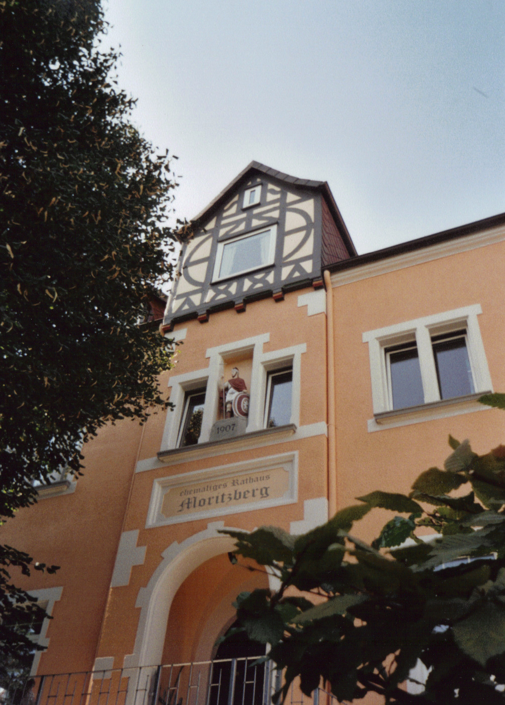 Former Town Hall of the borough of Moritzberg, Hildesheim, Germany.